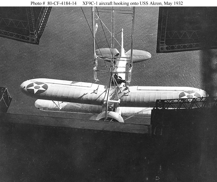 A U.S. Navy Curtiss XF9C-1 "Sparrowhawk" fighter hooks onto the trapeze landing gear of USS Akron (ZRS-4), while landing on the airship, 3 May 1932.